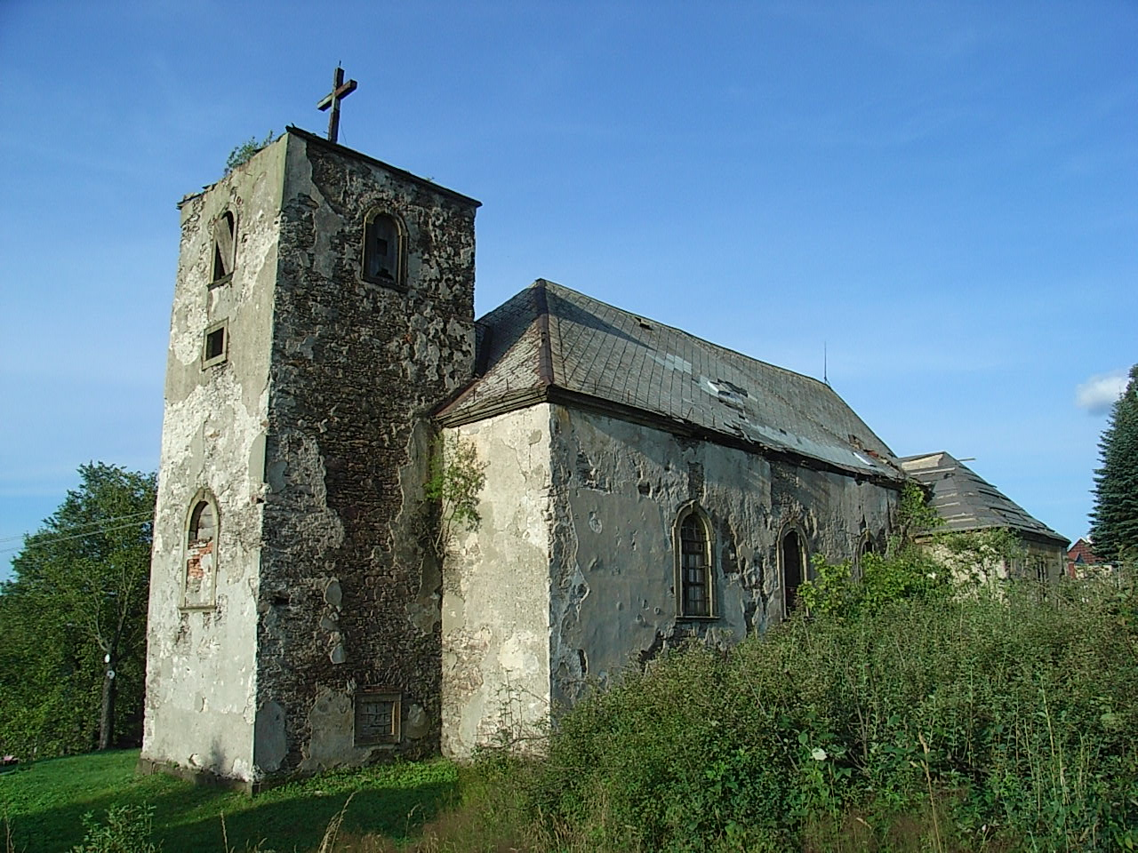 Kostel sv. archanděla Michaela, Nová Ves v Horách